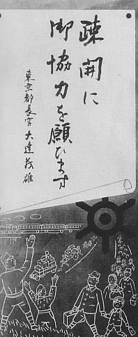 Tokyo Metropolitan Poster (During World War II) "Please cooperate in the evacuation"